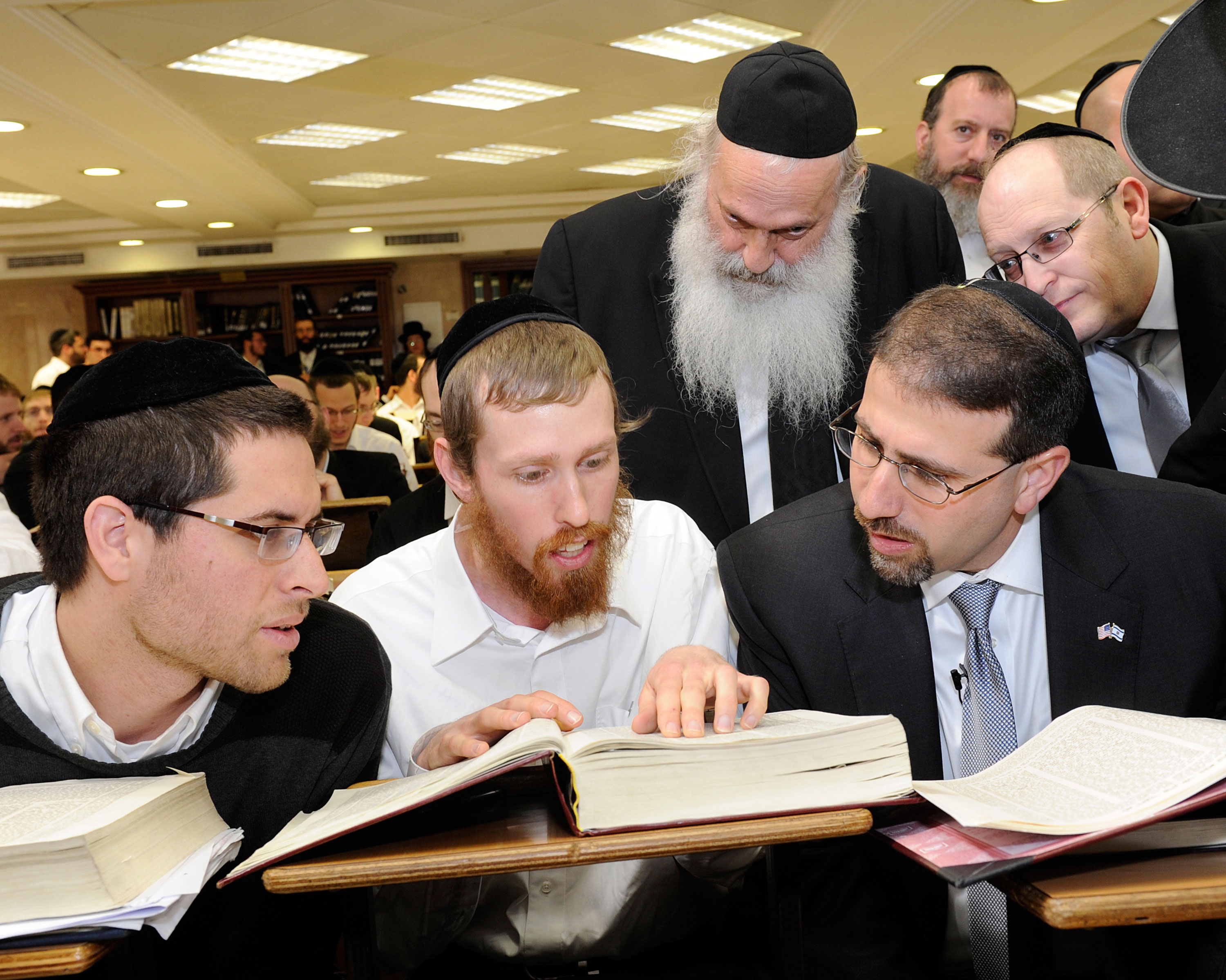 U.S. Ambassador to Israel Daniel B. Shapiro visits the Mir Yeshiva in Jerusalem one of the largest yeshivas in the world with over 6,000 students, 1,000 of whom are from the United States, on January 10, 2012. Ambassador Shapiro is accompanied by Rabbi Aharon Chodosh, Rabbi Nachman Levovitz, Rabbi Binyamin Carlebach and Rabbi Aaron David Davis, the mashgiach ruchani, spiritual supervisor of all the students at the Mir. [State Department photo/ Public Domain]